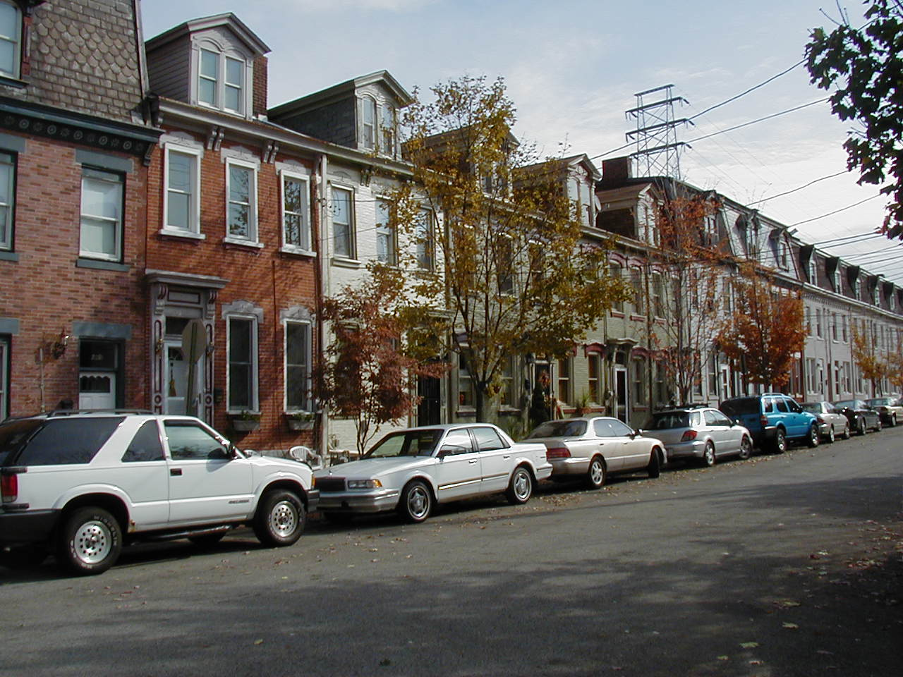 South Side Flats--common housing